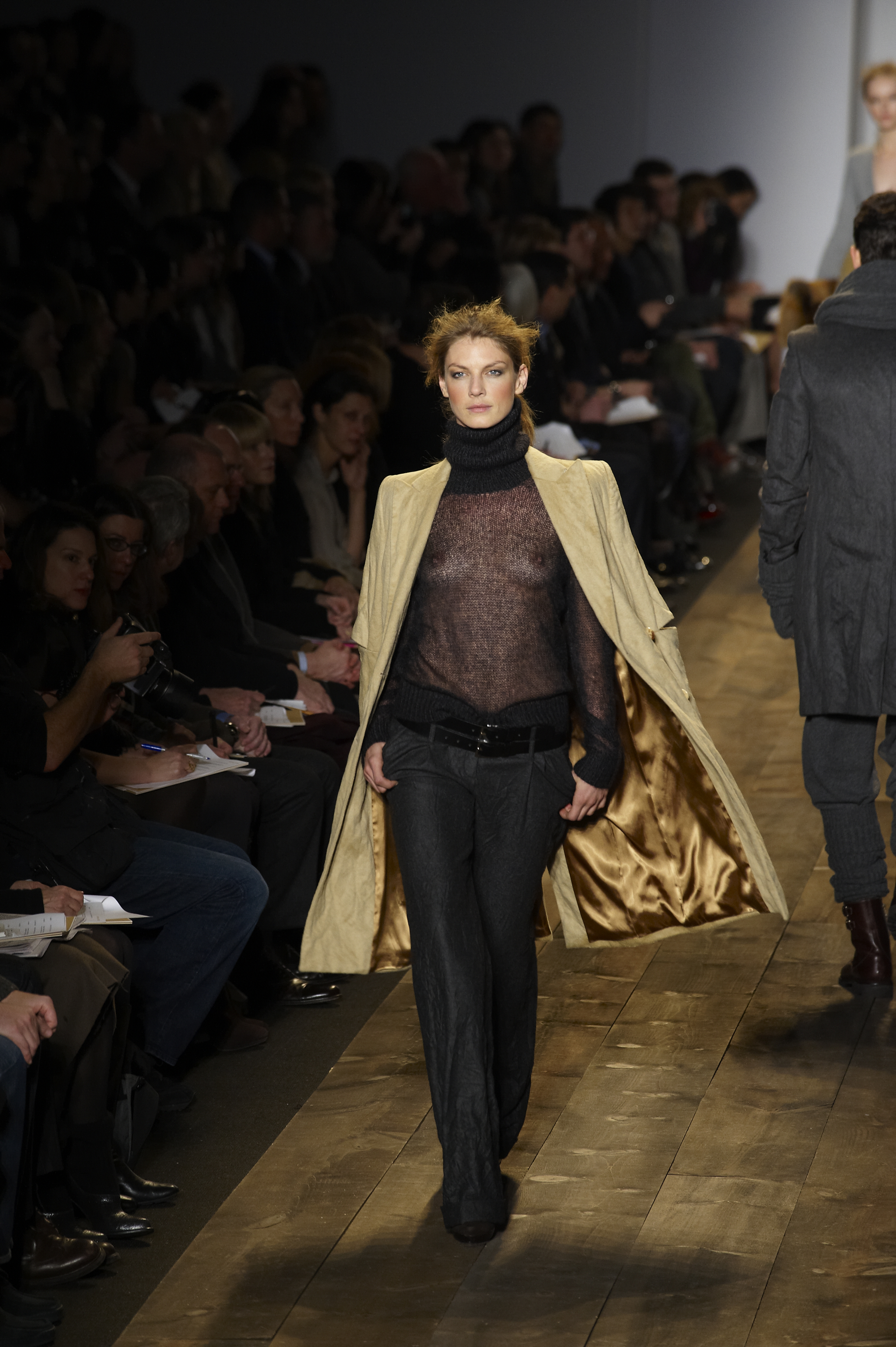 A model walks the runway at the Michael Kors Fall/Winter 2010 show at New York Fashion Week, February 2010.